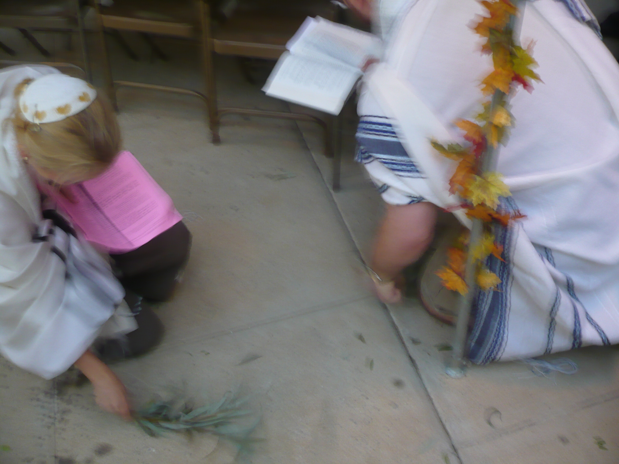 Ziegler School of Rabbinic Studies students beating the willow branches on Hoshannah Rabbah 2008 in the American Jewish University sukkah